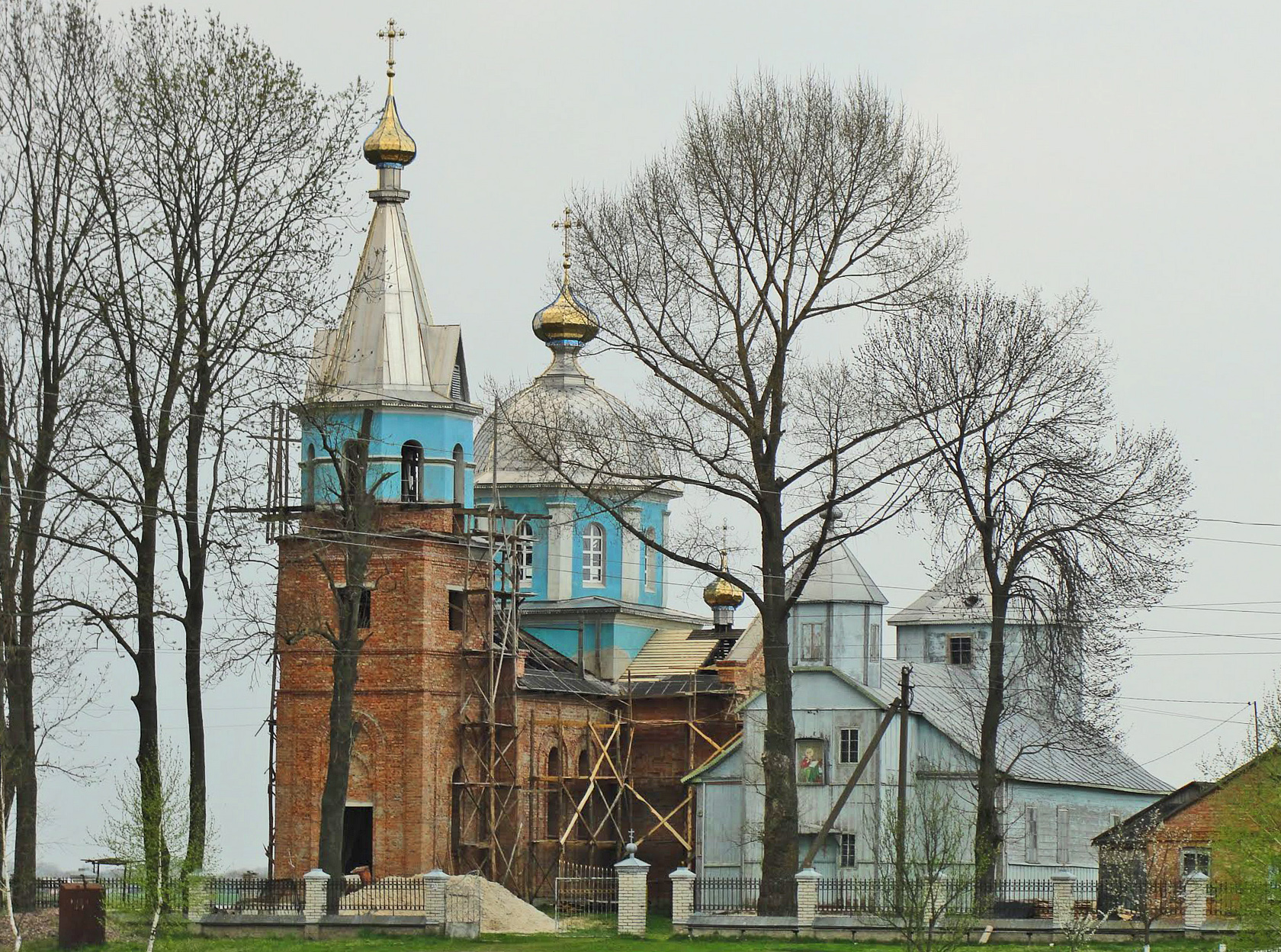 The new church during the construction along with the old in the village Borochiv. (2011 year)